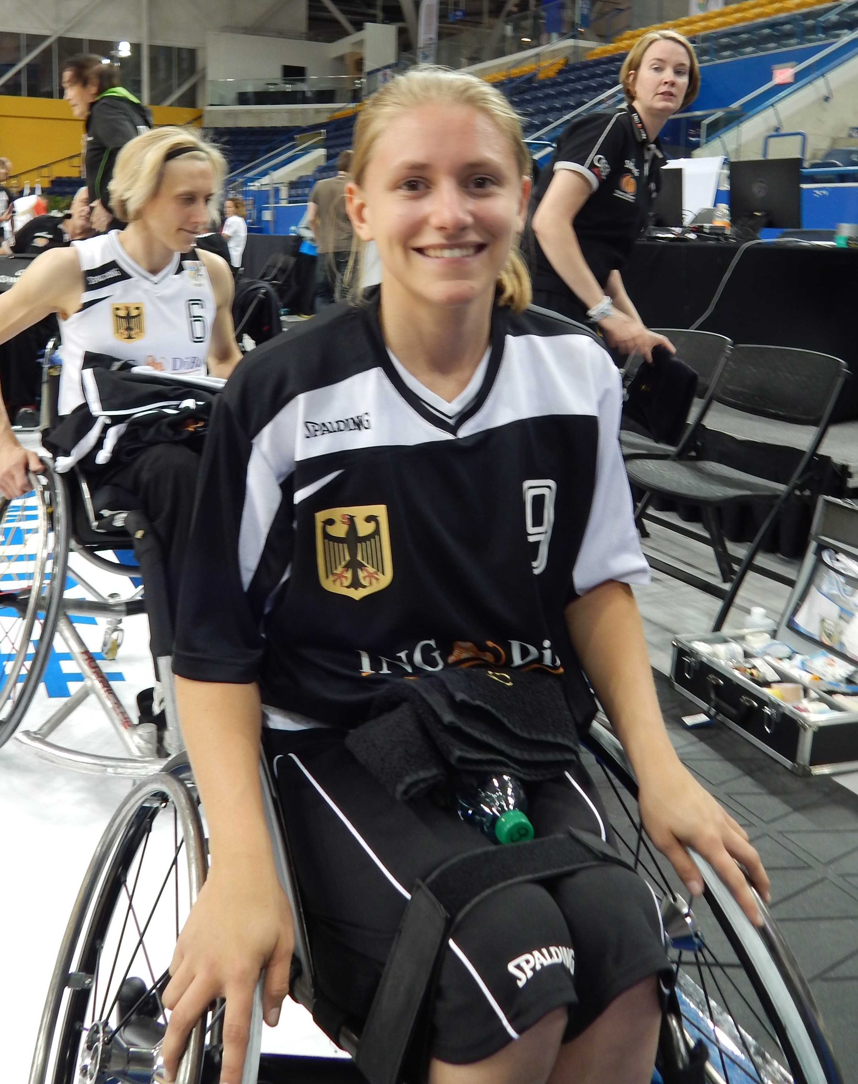 Laura Fuerst